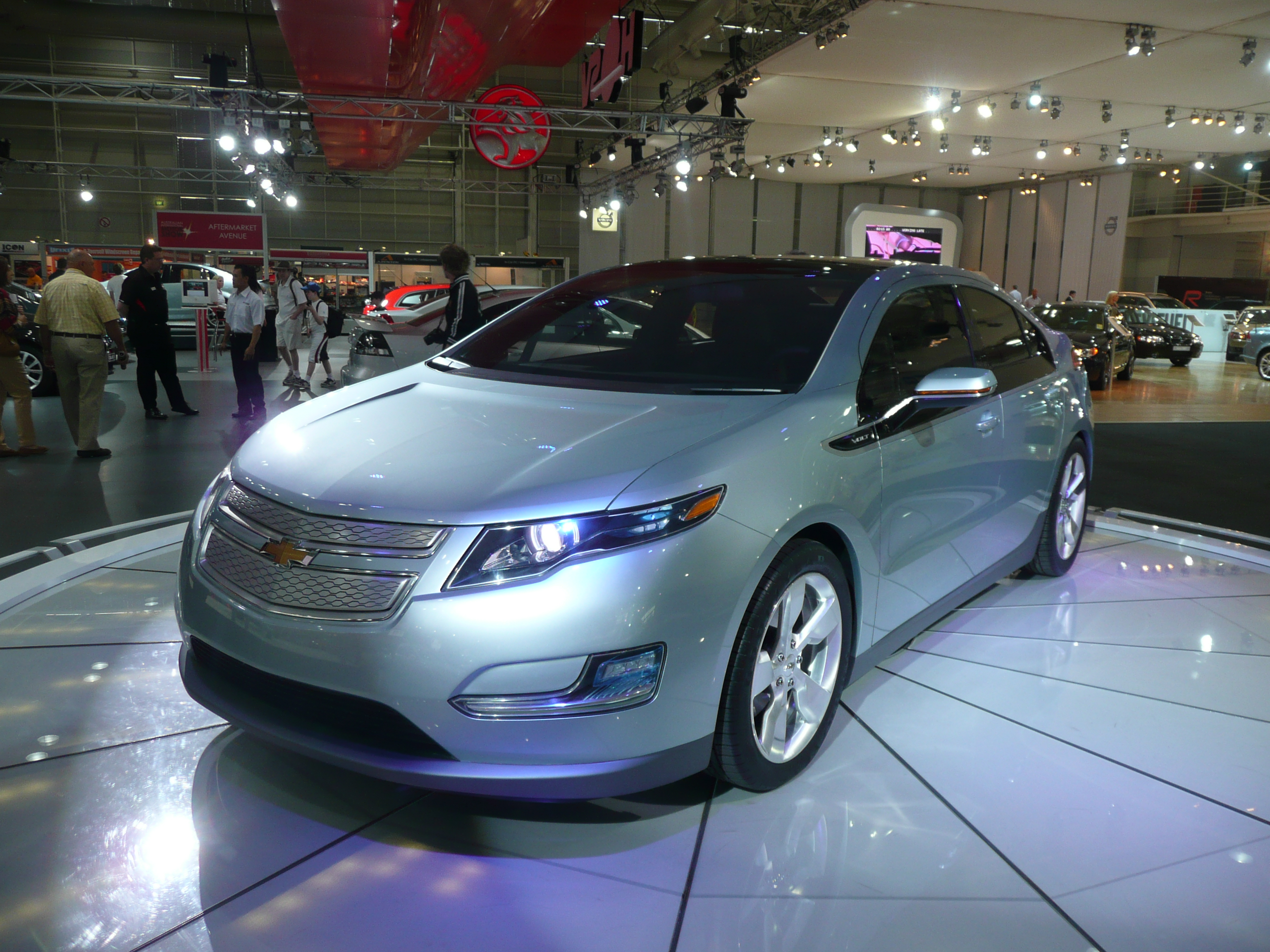 2008 Chevrolet Volt hatchback (concept). Photographed at the 2008 Australian International Motor Show, Sydney, New South Wales, Australia.